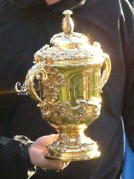 The Webb Ellis cup, trophy given to the Rugby World Cup winners since 1987.